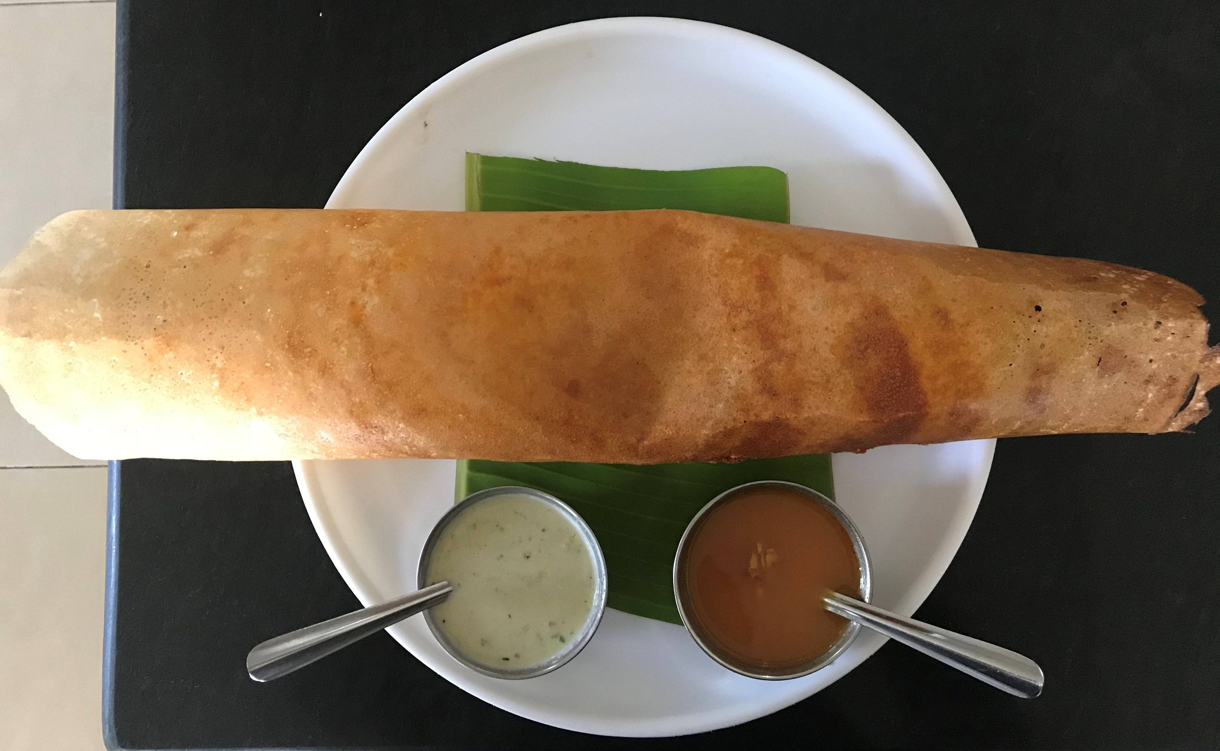 Masala dosa or masale dose is a variation of the popular South Indian food dosa, which has its origins in Tuluva Mangalorean cuisine. It is made from rice, lentils, potato, methi, and curry leaves, and served with chutneys and sambar. Though it was only popular in South India, it can be found in all other parts of the country and overseas. In South India, preparation of masala dosa varies from city to city.